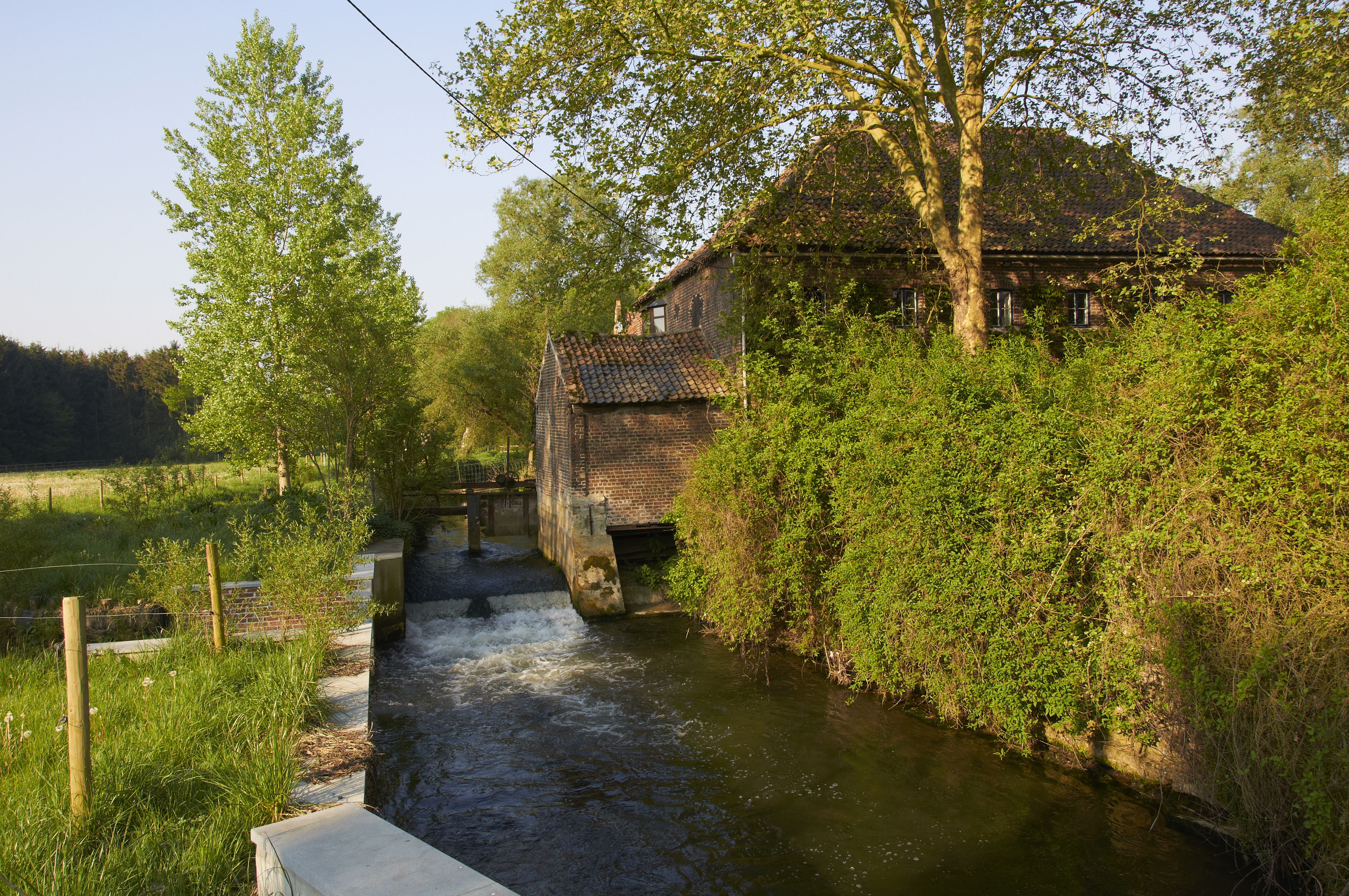 The river Lane in Terlanen, Belgium with a water mill